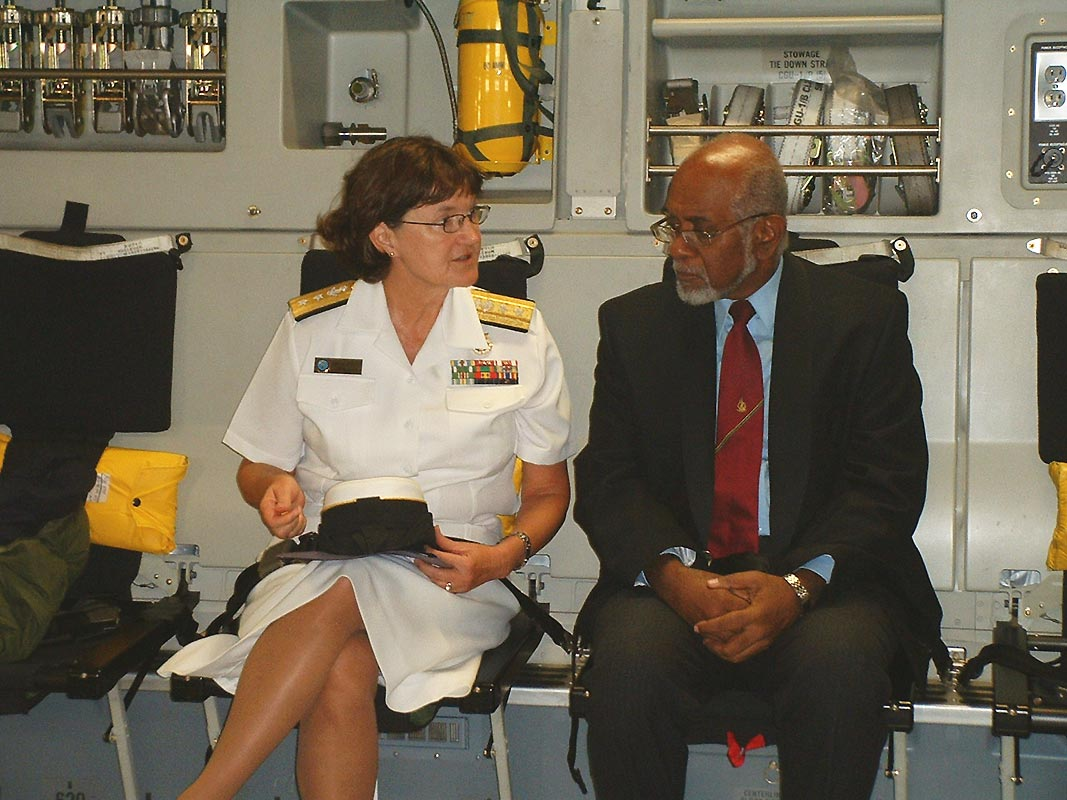 Photo taken at a repatriation ceremony was held in Luganville, Espiritu Santo, Republic of Vanuatu on July 31, 2009. Navy Rear Adm. Donna Crisp, left, commander, Joint POW/MIA Accounting Command, and His Excellency President Kalkot Matas Kelekele, right, Republic of Vanuatu, talk aboard a U.S. Air Force C-17 en route to a repatriation ceremony in the Republic of Vanuatu, July 31. One JPAC team, deployed out of Hickam Air Force Base, Hawaii, conducted recovery operations in Vanuatu for 45 days, searching for Americans still missing from World War II. JPACs mission is to achieve the fullest possible accounting of all Americans missing as a result of our nation’s past conflicts. (JPAC photo by Alvin Teel)